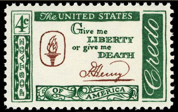 US Postage stamp, Credo issue of 1961, 4c, famous quote by Patrick Henry